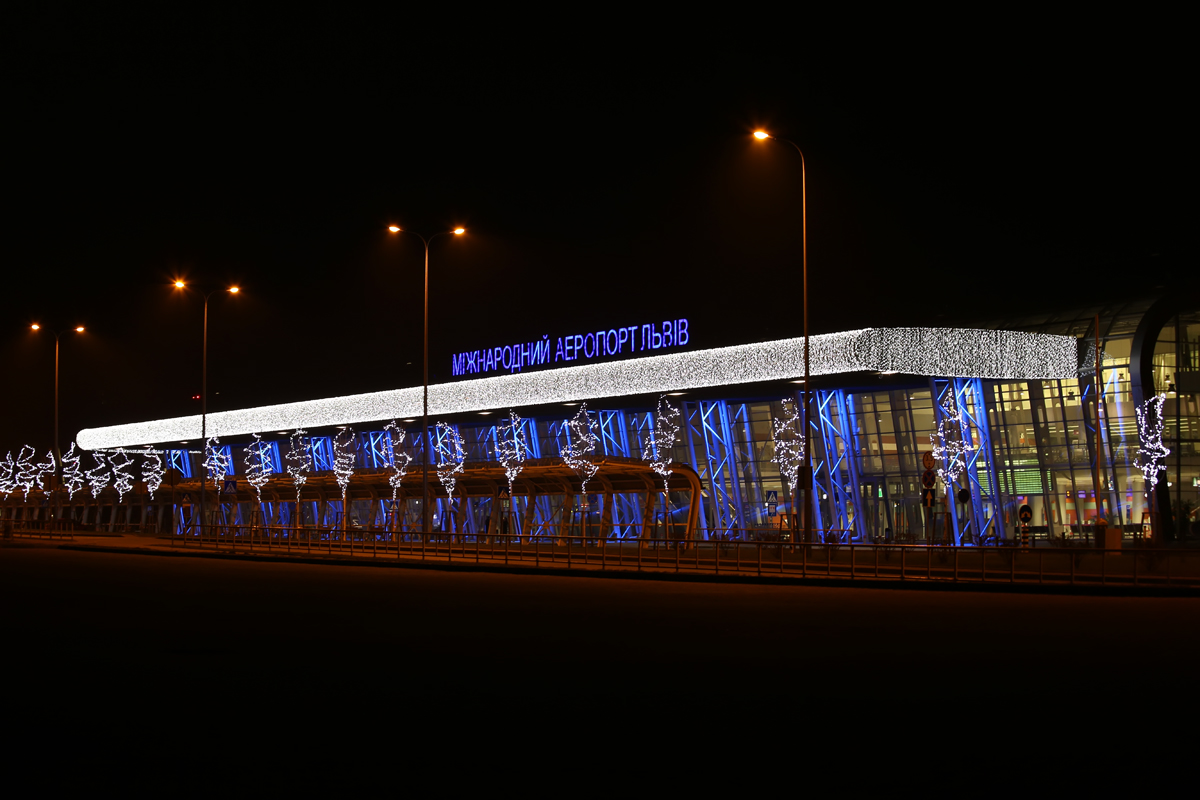 Winter night, Lviv Danylo Halytskyi International Airport